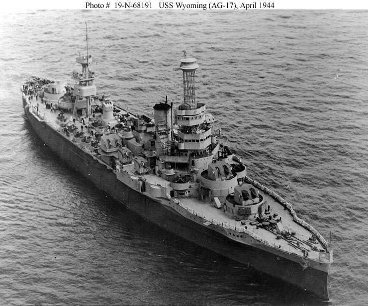 American battleship Wyoming after her conversion into a gunnery training ship AG-17, in 1944